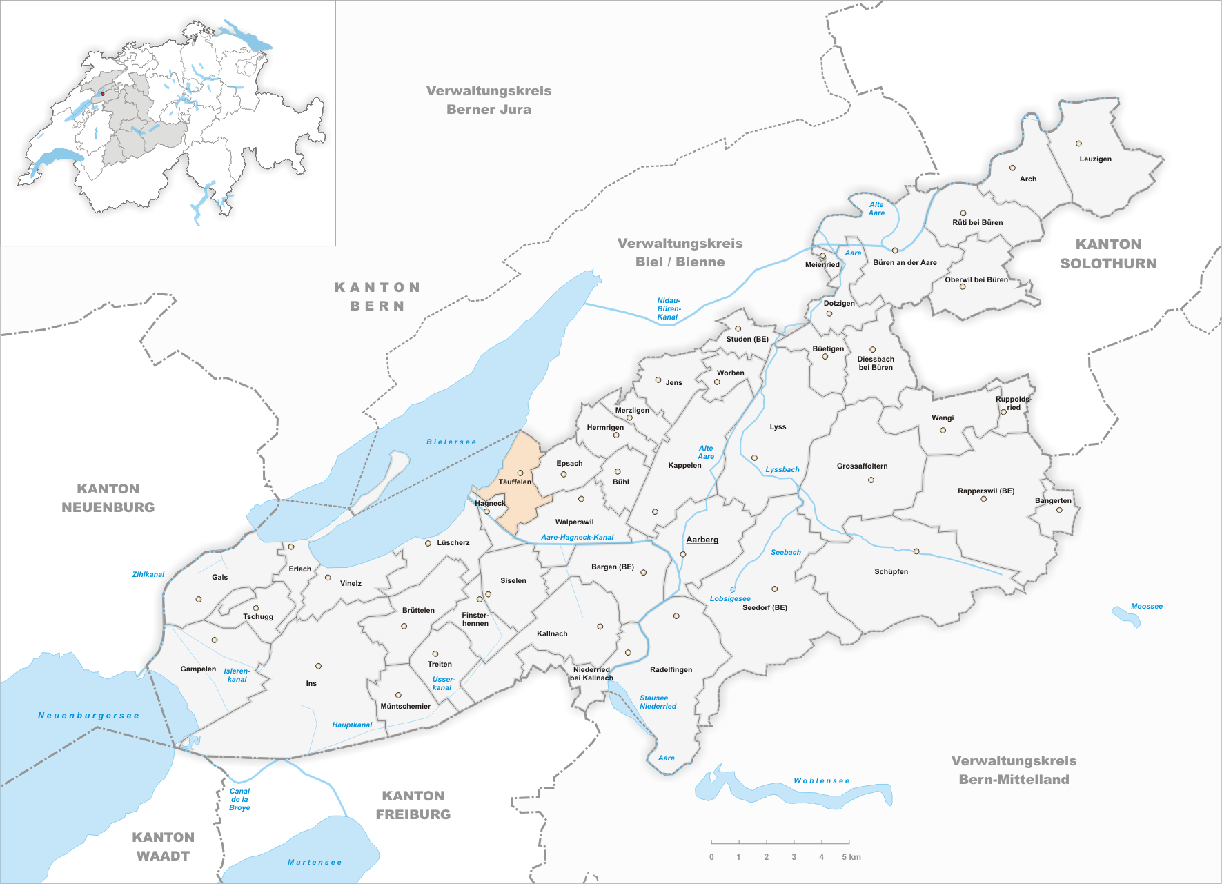 Municipality Täuffelen